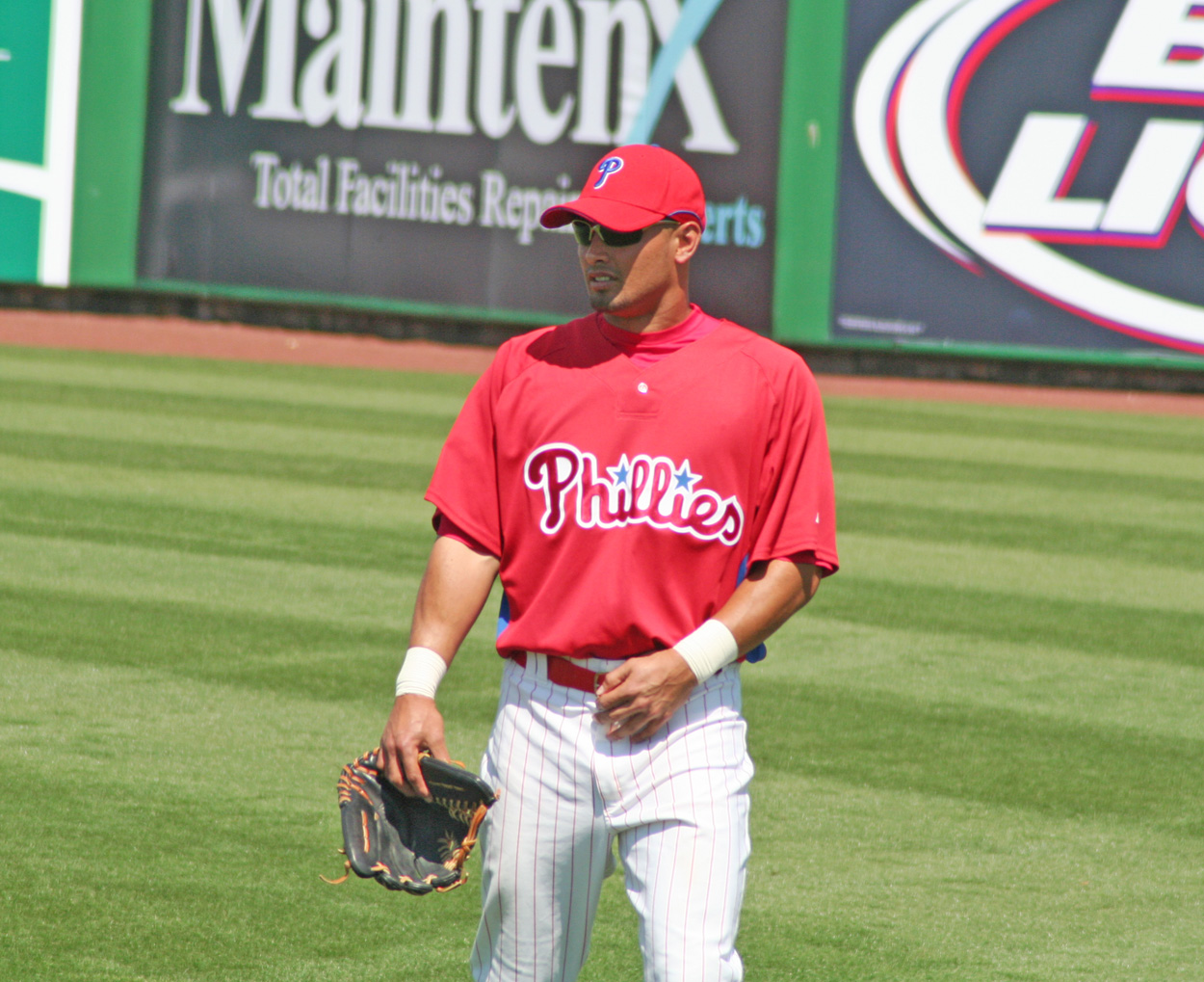 Photograph taken by Googie Man 22:49, 17 March 2007 . . Googie man . . 1250×1019 (437,446 bytes)